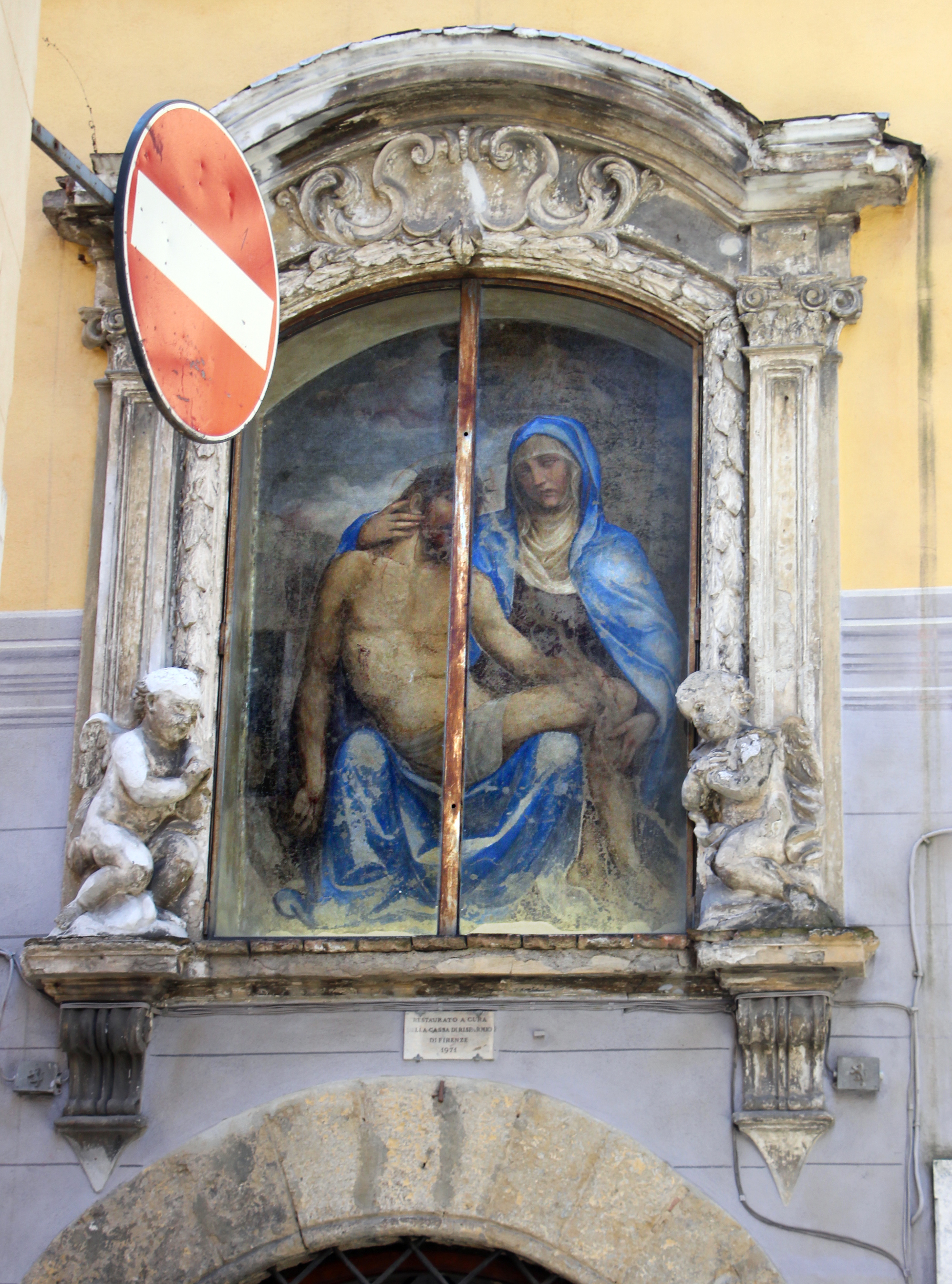 Via di Stalloreggi, Siena